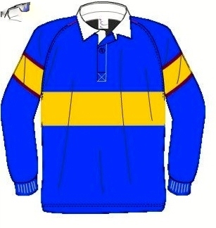 Thos Cook & Son's RFC Jersey in club colours